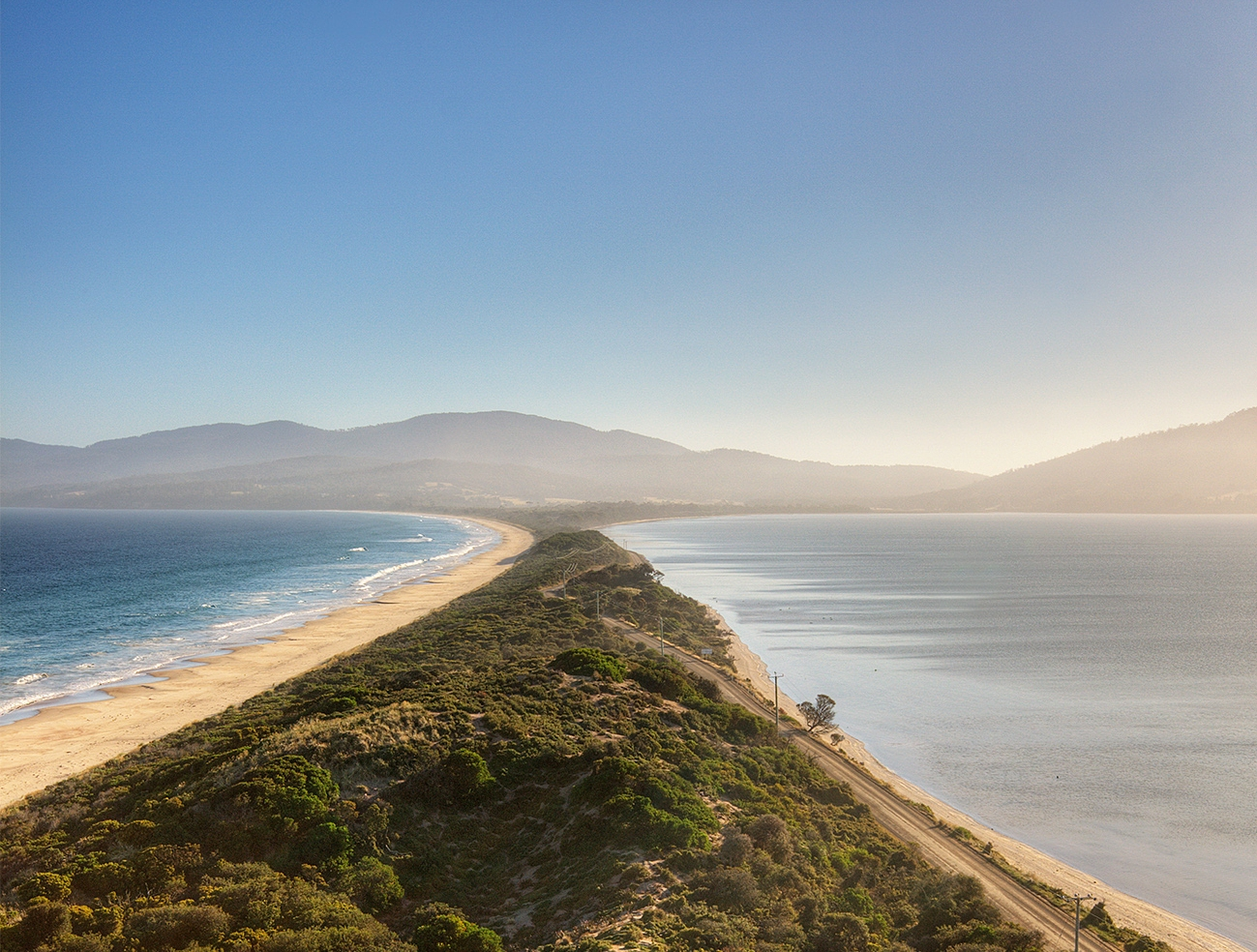 The Spit, Bruny Island, Tasmania, Australia Camera data Camera Canon EOS 400D Lens Sigma 10-20mm F4-5.6 EX DC HSM Focal length 20 mm Aperture f/10 Exposure time 1/400 s Sensivity ISO 400